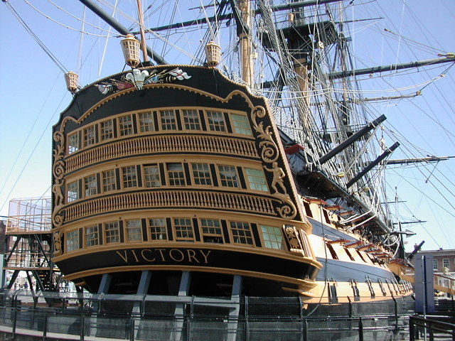 The stern of HMS Victory